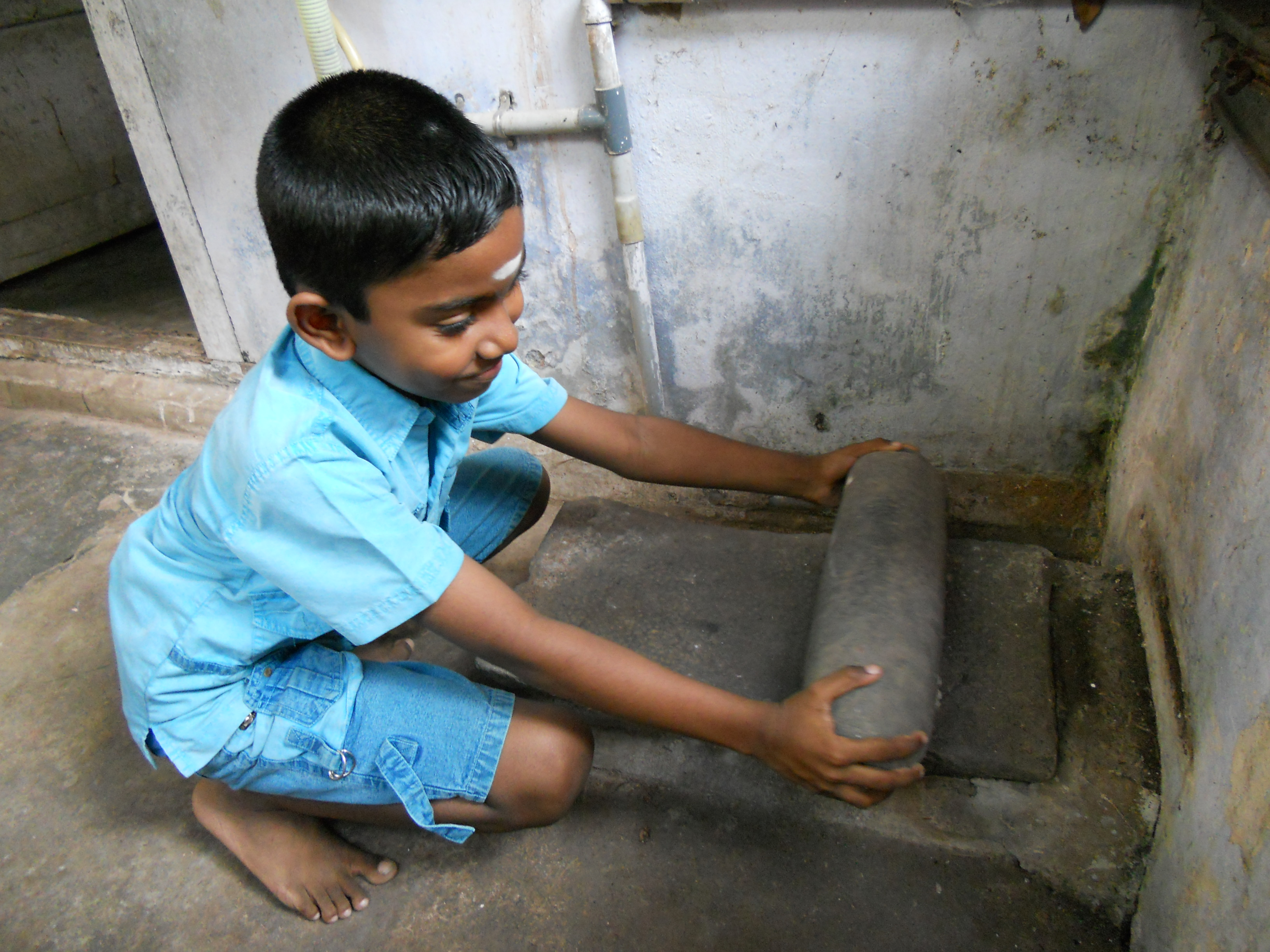 Indian Metate used for processing grain and seeds in India